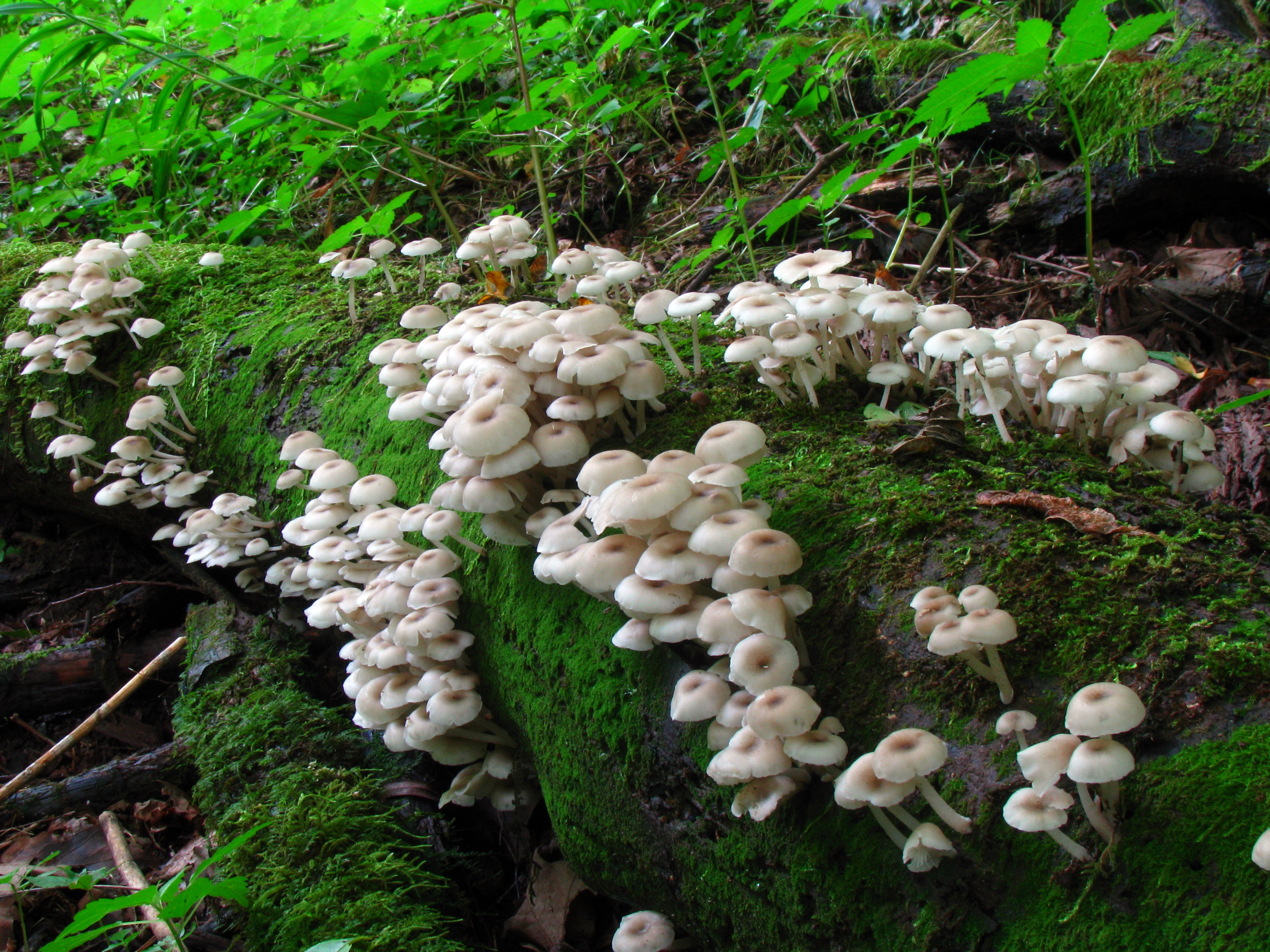 Clitocybula abundans (Peck) Singer Location: Strouds Run State Park, Athens, Ohio, USA For more information about this, see the observation page at Mushroom Observer.